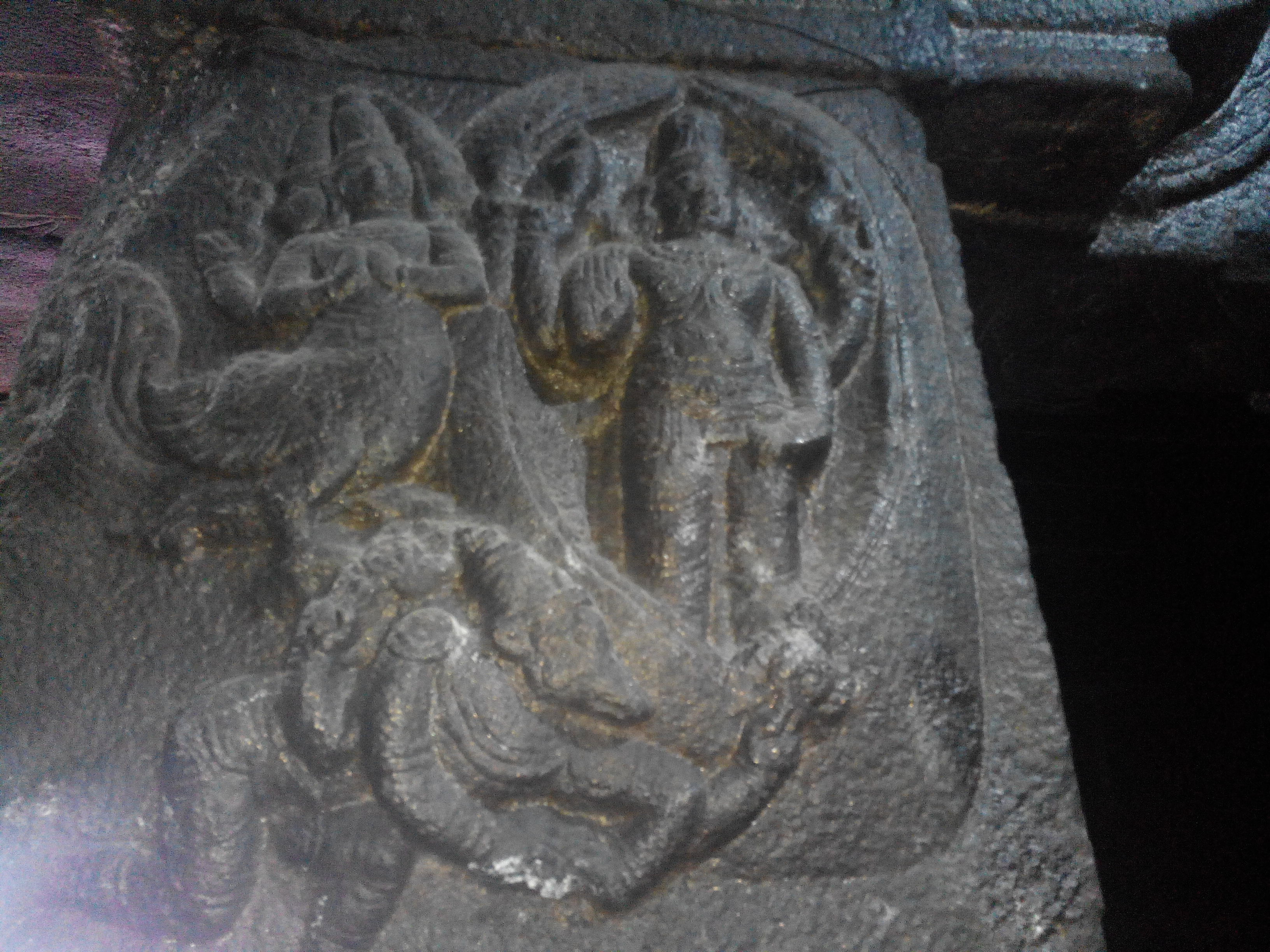 ஸ்ரீபெரும்புதூர் பூதபுரிசுவரர் கோயில் உள்ளே உள்ள ஒரு தூணில் உள்ள லிங்கோத்பவர் சிற்பம். சிவனின் முடியைக்காண பிரம்மன் அன்னப்பறவையாகவும், அடியைக்காண விஷ்ணு வராகமாகவும் மாறி முயலும் சிற்பம்